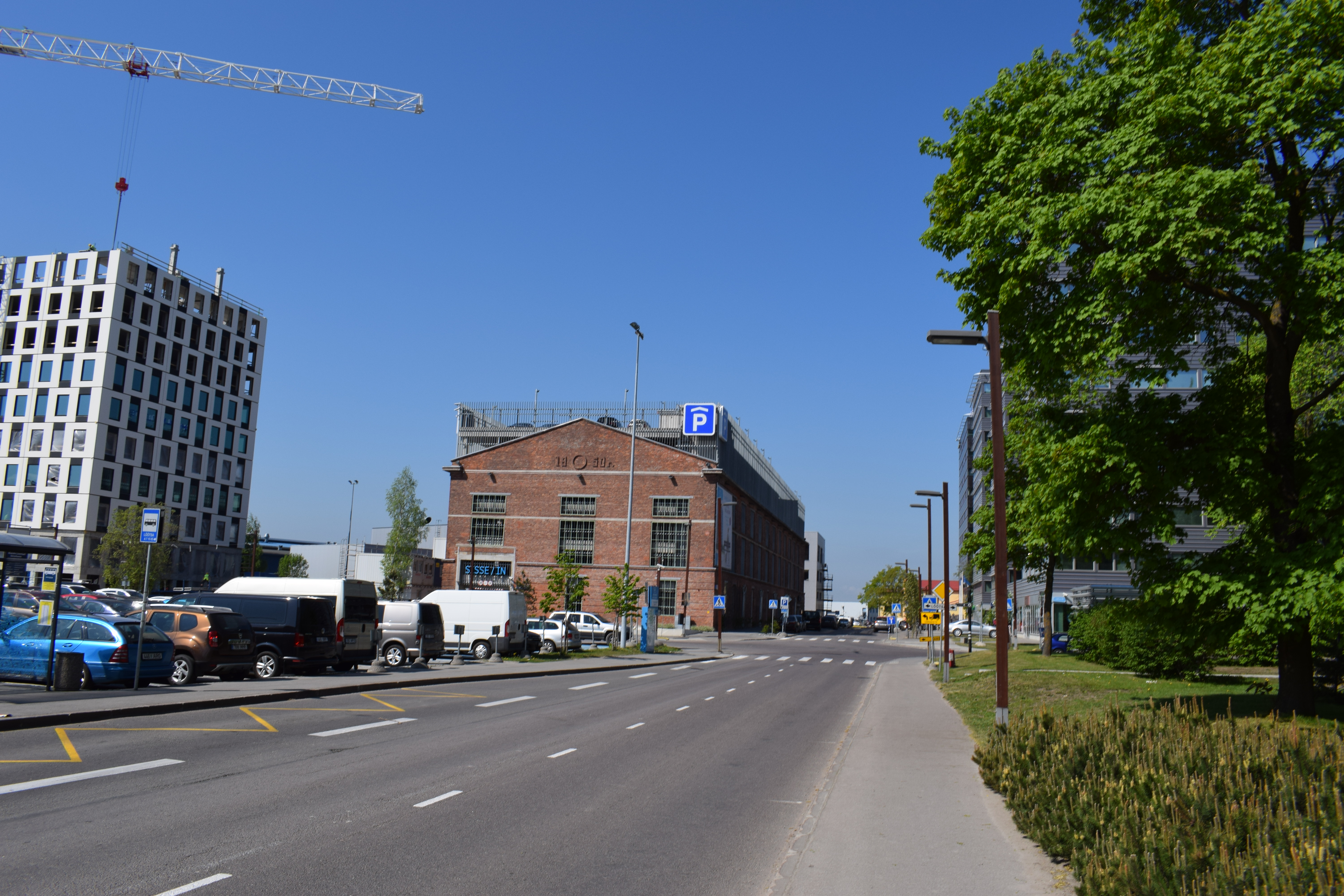 Tallinn